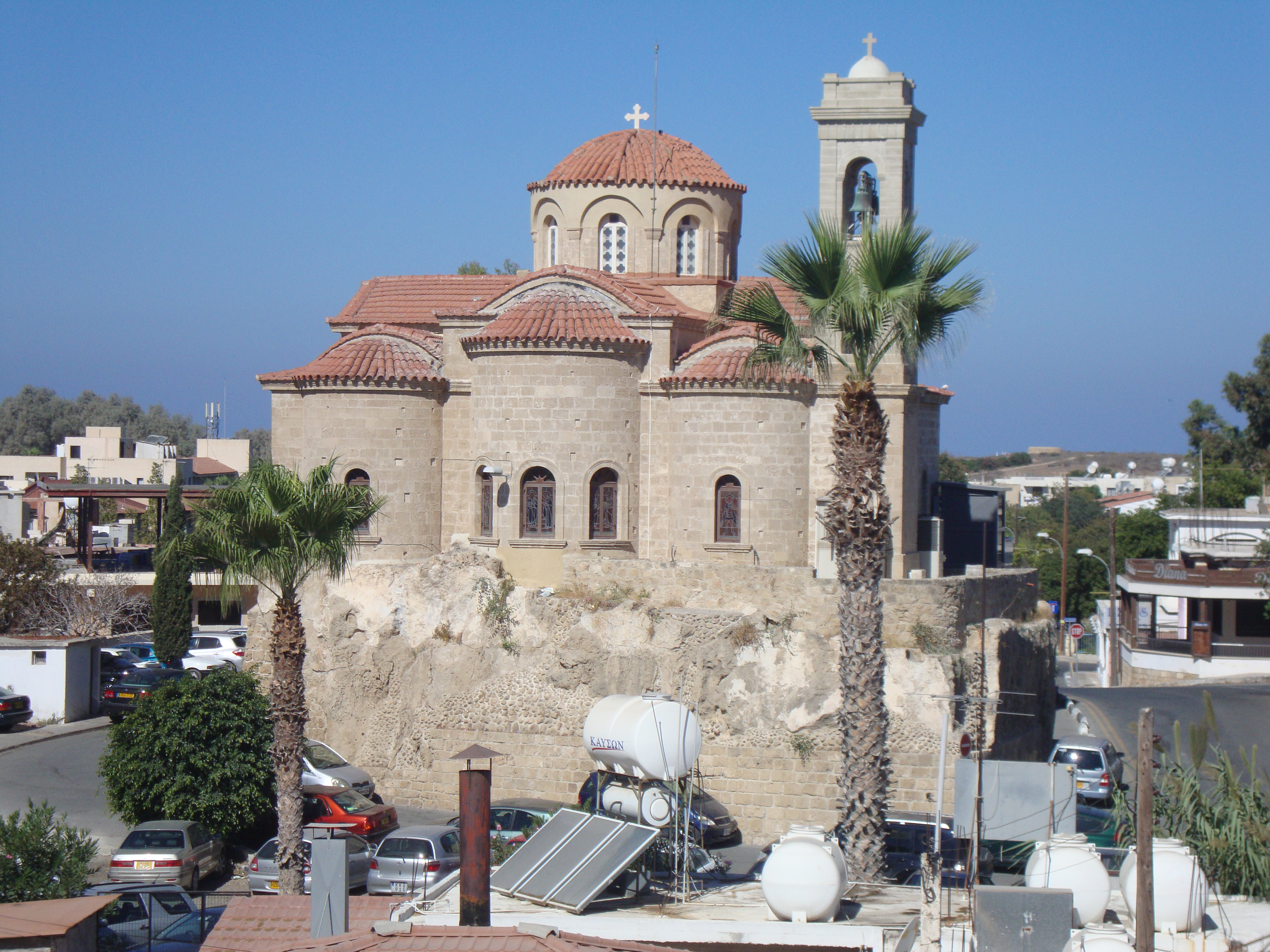 Panagia Theoskepasti. Пафос. 09.2013